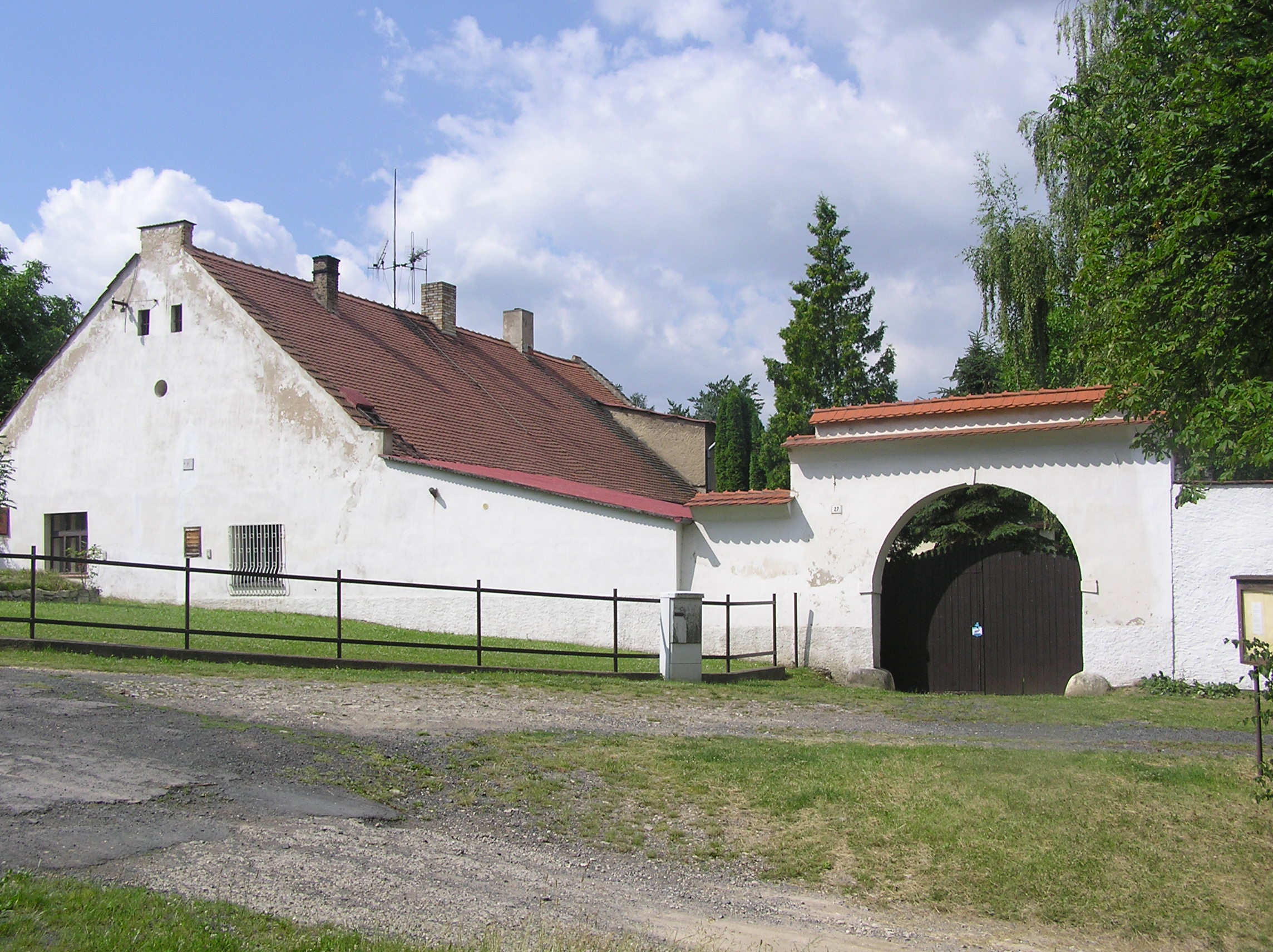 Farmhouse in Chrastín